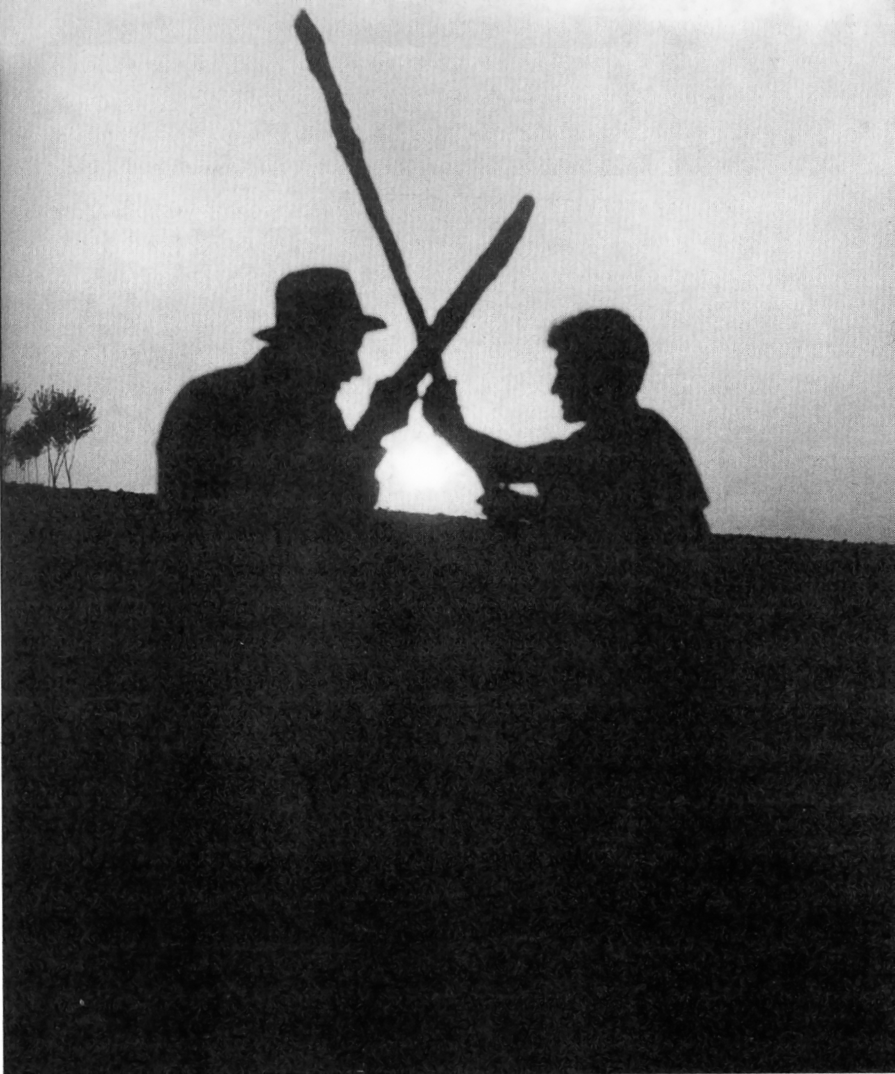 Zakaria Hashemi in Jonub-e Shahr, directed by Farrokh Ghaffary, 1959